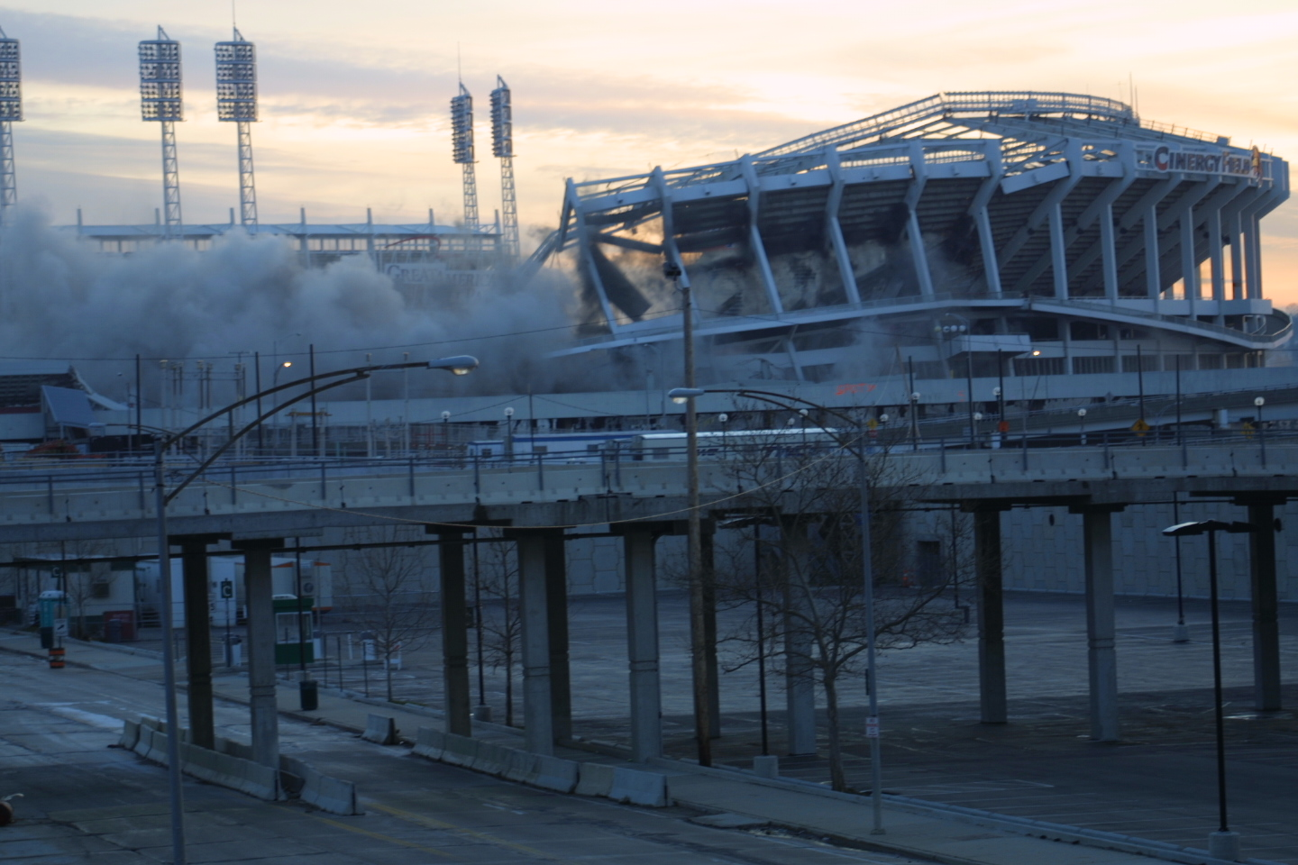 Cinergy Field (formerly Riverfront Stadium) was imploded on 29-DEC-2002.